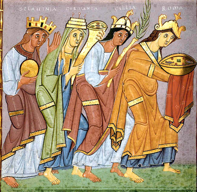 Sclavinia, Germany, Gaul and Rome bringing gift to Emperor Otto III.